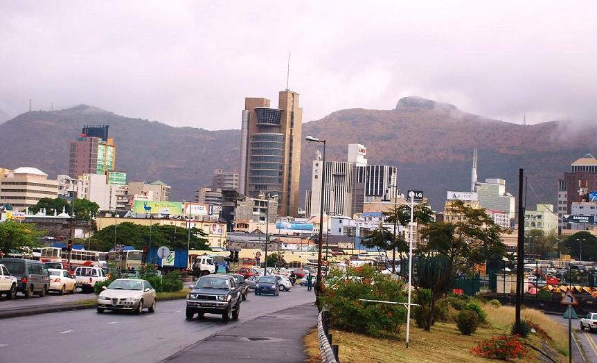 Port Louis, the Capital of Mauritius